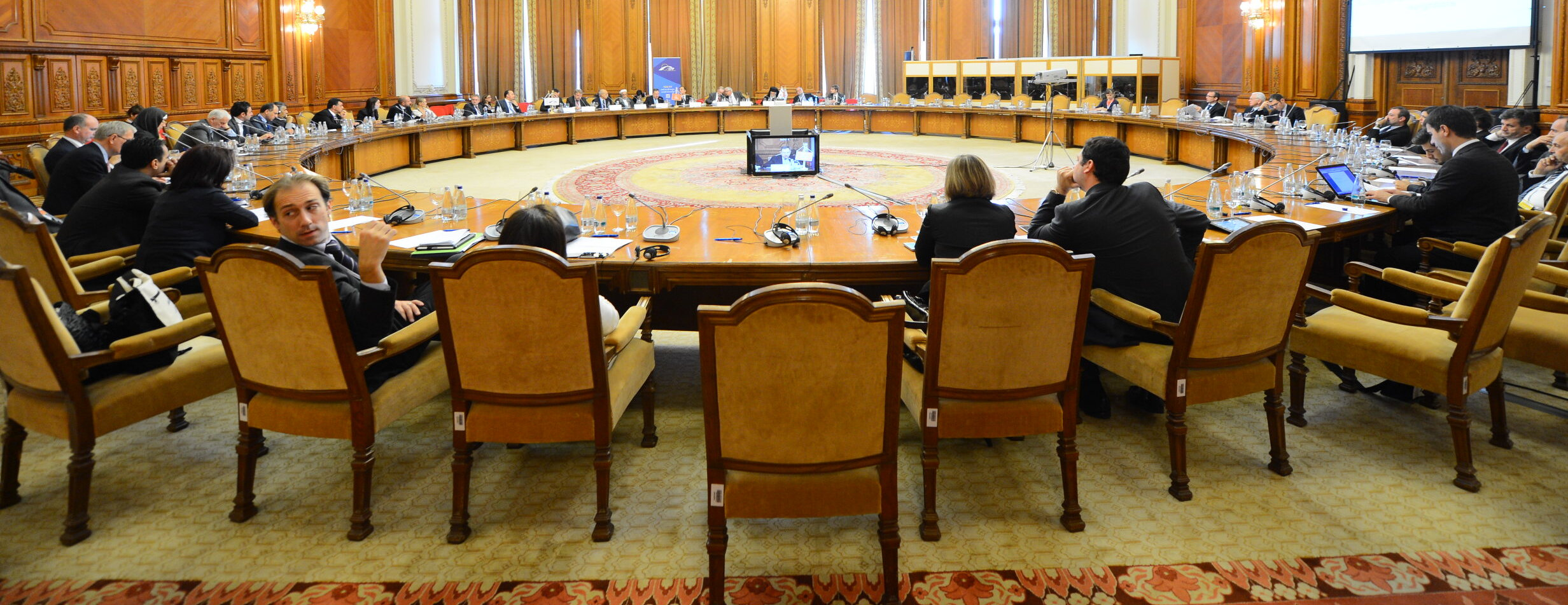 EPP_Congress_5516